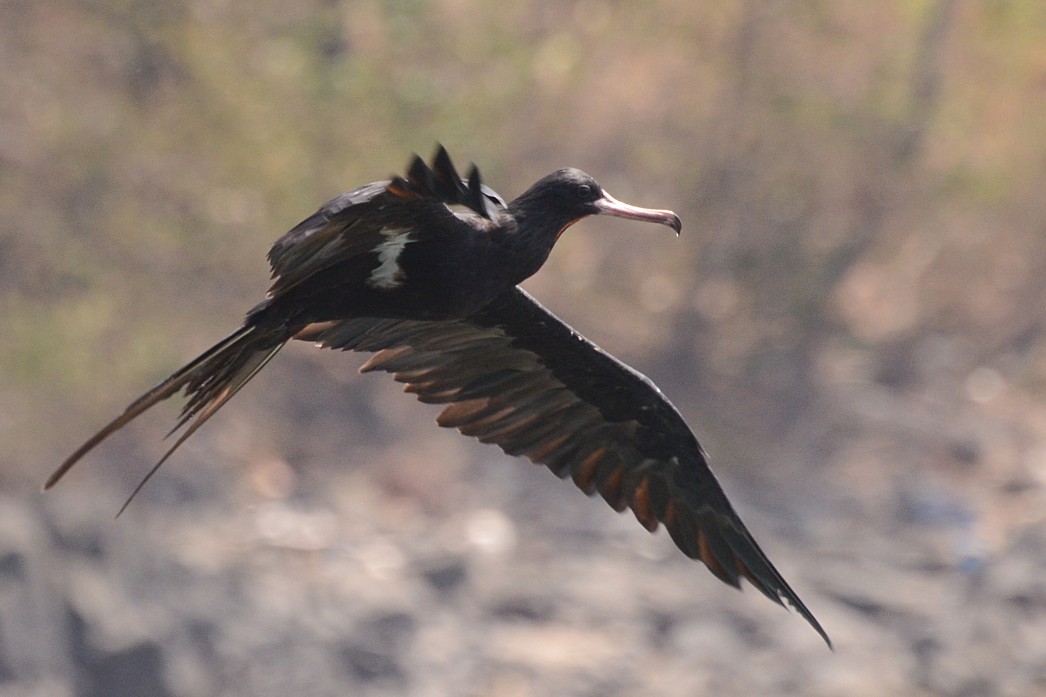 Male of lesser frigatebird (Fregata ariel) at Labuan Tawoa, Batuputih, North SulawesiBahasa Indonesia: Pejantan cikalang kecil (Fregata ariel) di Labuan Tawoa, Batuputih, Sulawesi Utara